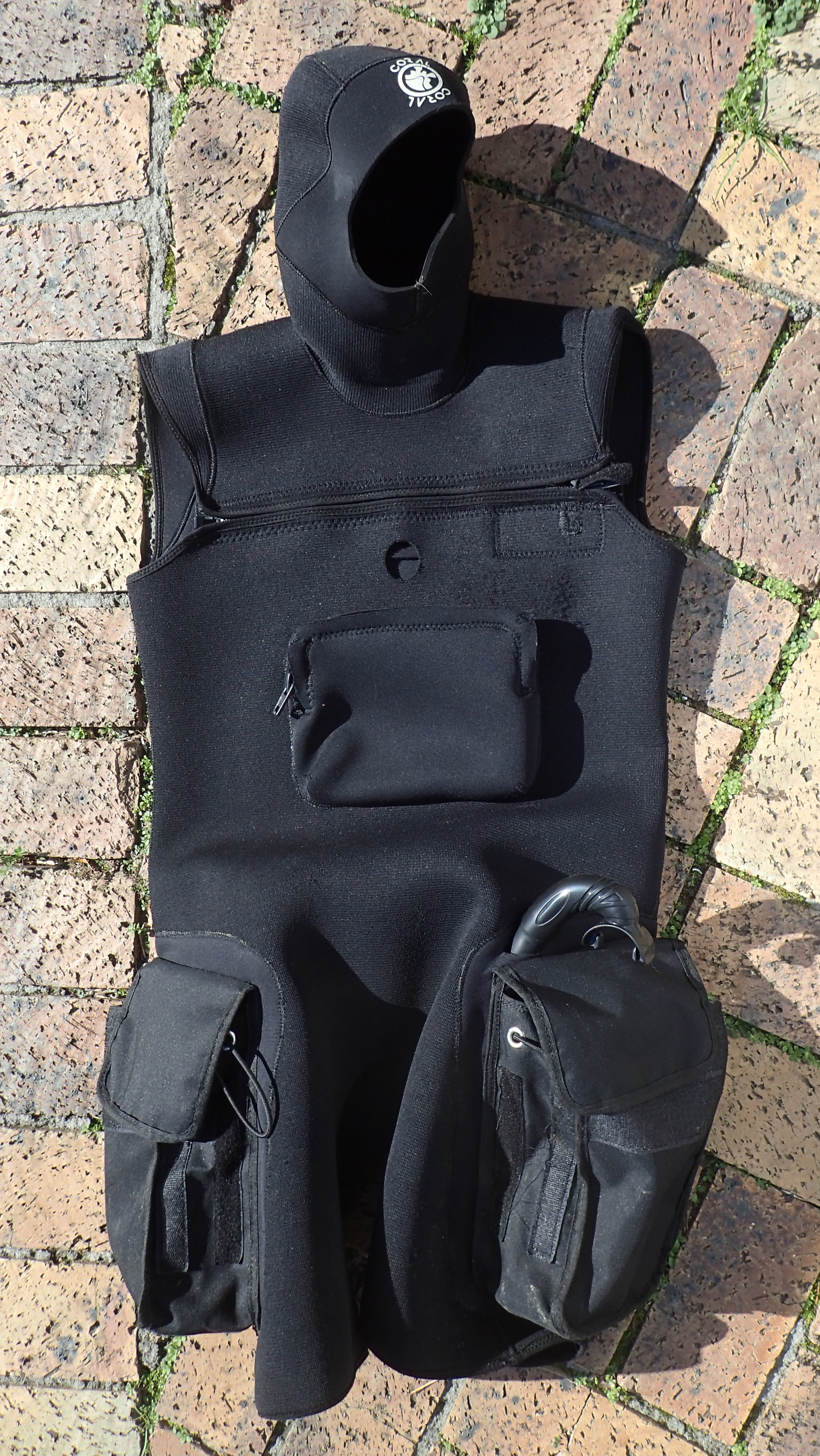 Neoprene wetsuit tunic with integral hood, and pockets to be worn over a wetsuit or dry-suit. Access hole on chest area is for dry-suit inflation valve. Pockets on thighs and chest for accessories and tools